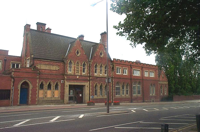 Pontefract General Infirmary , Old Entrance. This is the old entrance to Pontefract General Infirmary, on Southgate, Pontefract. In the mid 1960s,a new entrance was built on Friarwood Lane.